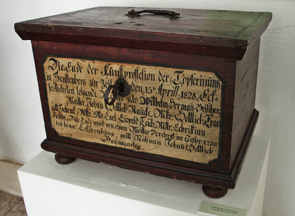 Senftenberg: guild drawer of the potters from 1750.